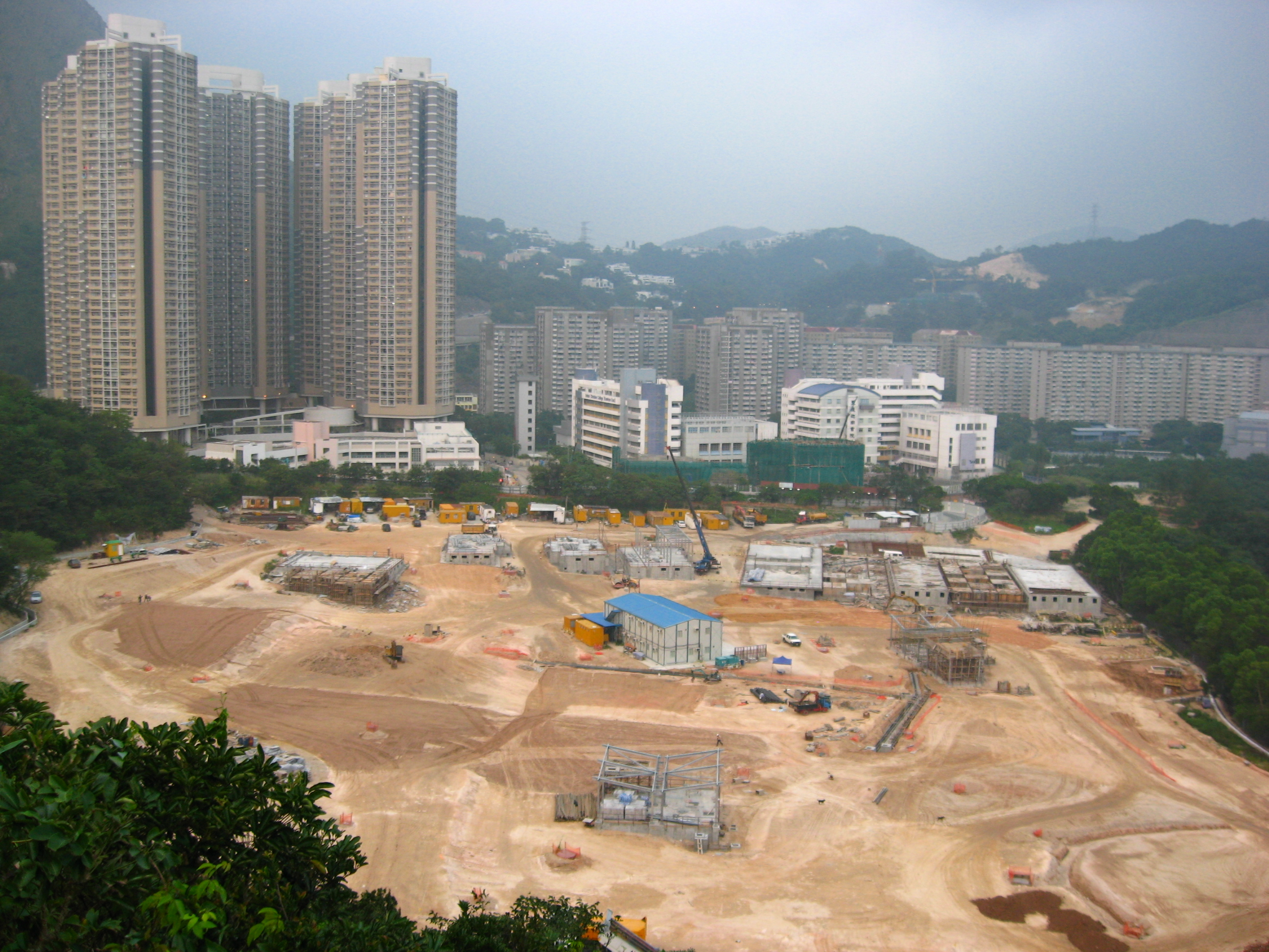 Jordan Valley, Hong Kong (hill side) 中文（香港）: 香港佐敦谷（山上）